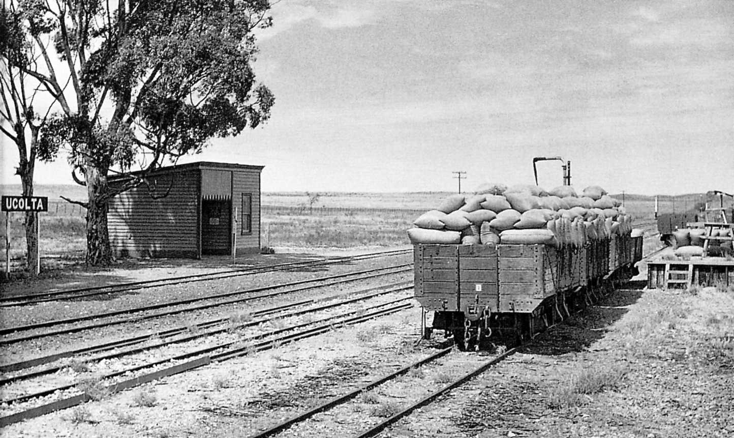 At Ucolta station (9 km east of Peterborough, South Australia on the then narrow-gauge (1067 mm) route to Broken Hill), bagged grain is in three loaded 4-wheel railway wagons on a siding and a fourth wagon is being loaded; a fifth further on is empty. Bagged grain is also on the adjacent platform. A 'Ucolta' sign and a small weatherboard station building are on the far side of three other railway lines.